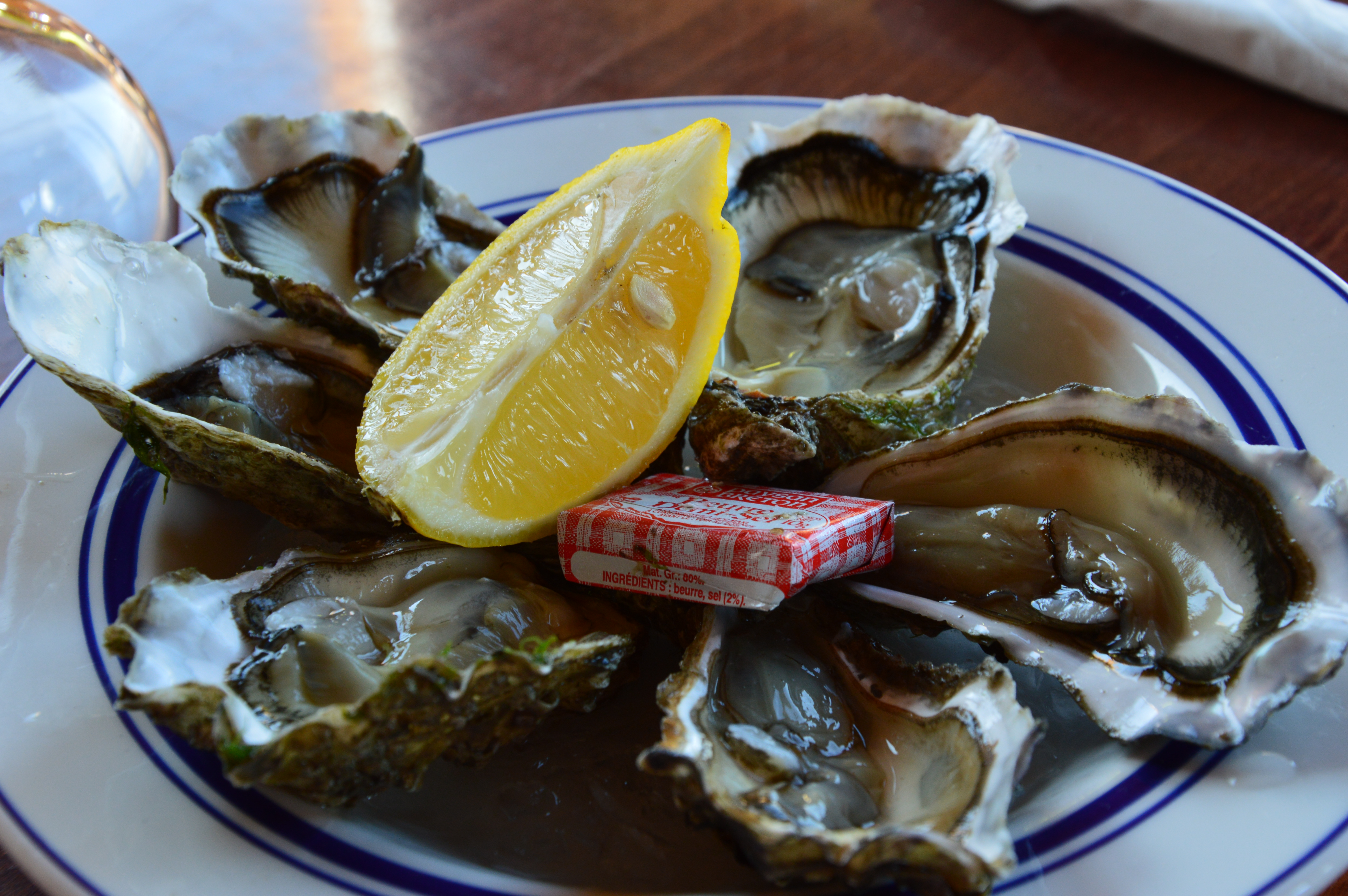 Oysters on a plate with lemon and a butter.